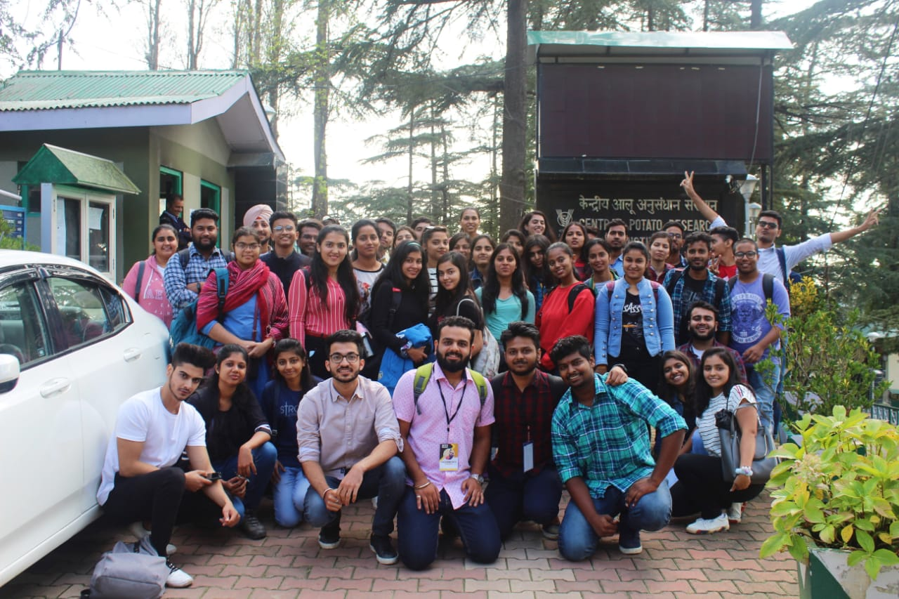 This is a group photo of UIET's students at the front gate of Central Potato Research Institute(CPRI),Shimla